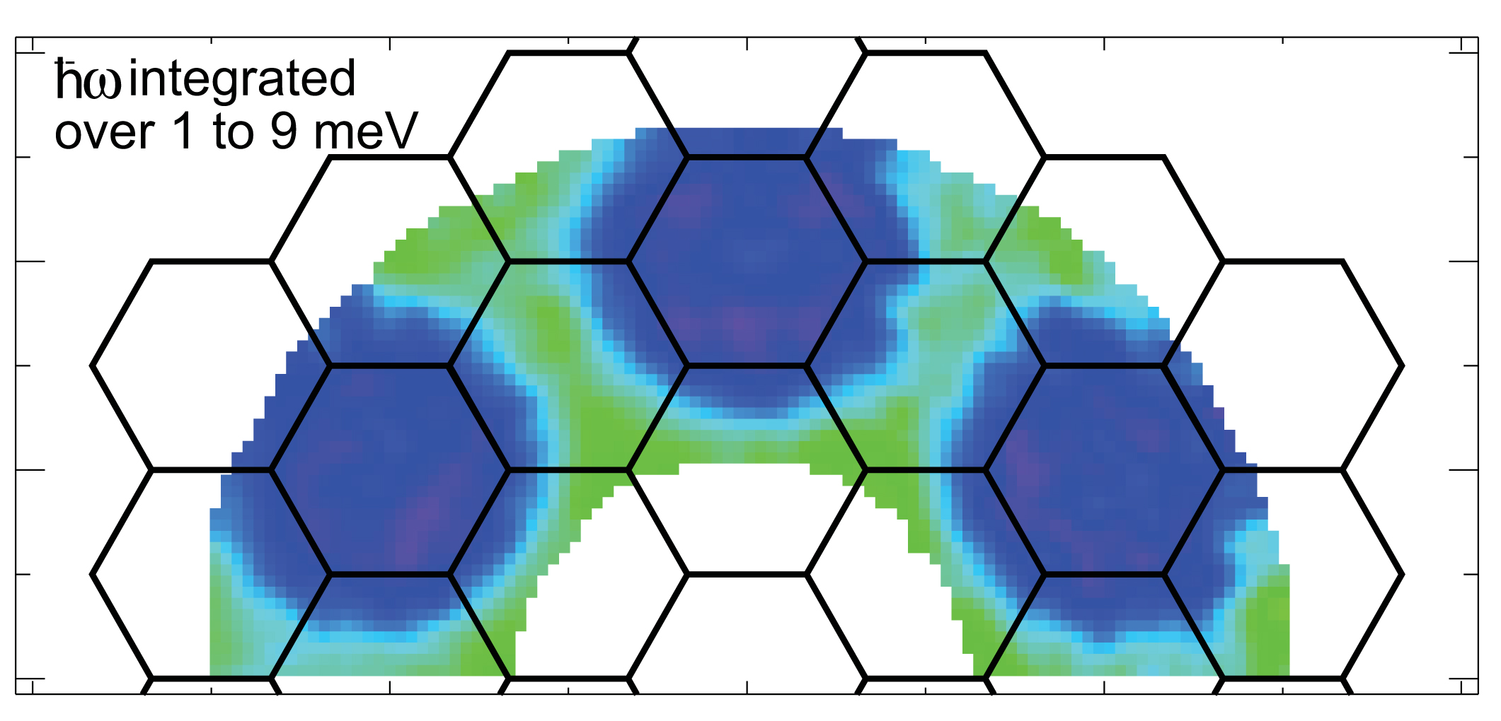 This image depicts magnetic effects within Herbertsmithite crystals, where green regions represent higher scattering of neutrons from NIST's Multi-Angle Crystal Spectrometer (MACS). Scans of typical highly-ordered magnetic materials show only isolated spots of green, while disordered materials show uniform color over the entire sample. The in-between nature of this data shows some order within the disorder, implying the unusual magnetic effects within a spin liquid. Credit: NIST Disclaimer: Any mention of commercial products within NIST web pages is for information only; it does not imply recommendation or endorsement by NIST. Use of NIST Information: These World Wide Web pages are provided as a public service by the National Institute of Standards and Technology (NIST). With the exception of material marked as copyrighted, information presented on these pages is considered public information and may be distributed or copied. Use of appropriate byline/photo/image credits is requested.